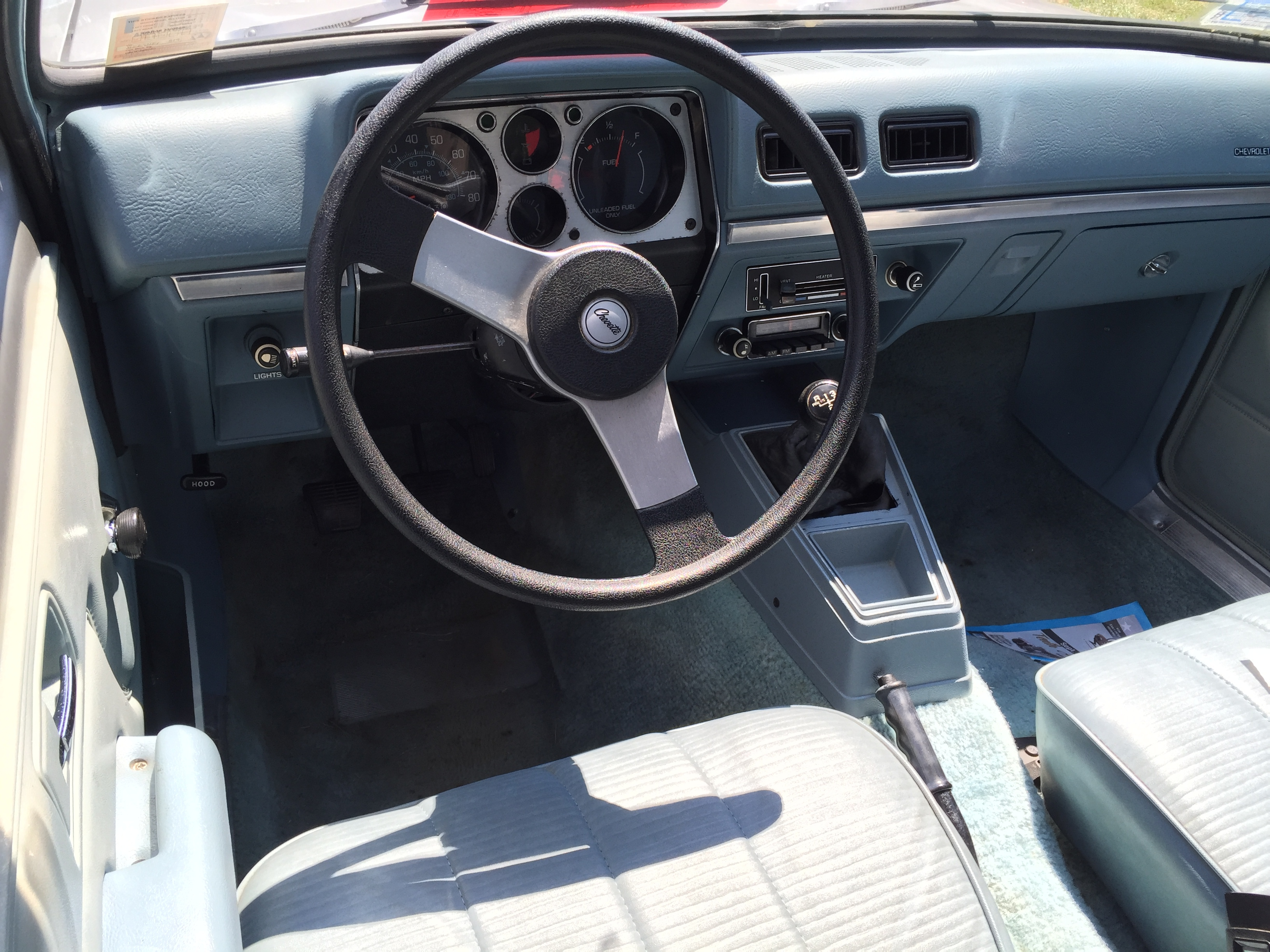 1978 Chevrolet Chevette four-door hatchback, an economy subcompact manufactured by General Motors. It is in original factory condition, without modifications or customization, and has not been butchered in any way. Picture taken at the 52nd Annual "Das Awkscht Fescht" antique car show in Macungie, Pennsylvania.